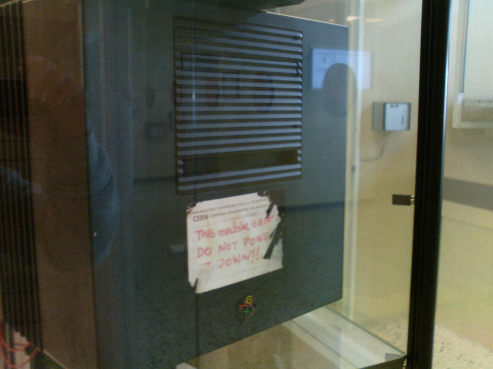 First web server located at CERN computer center. The label says "this machine is a server, do not power it down".